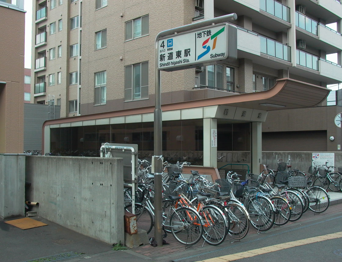 Shindo higashi station, Sapporo, Hokkaido, Japan